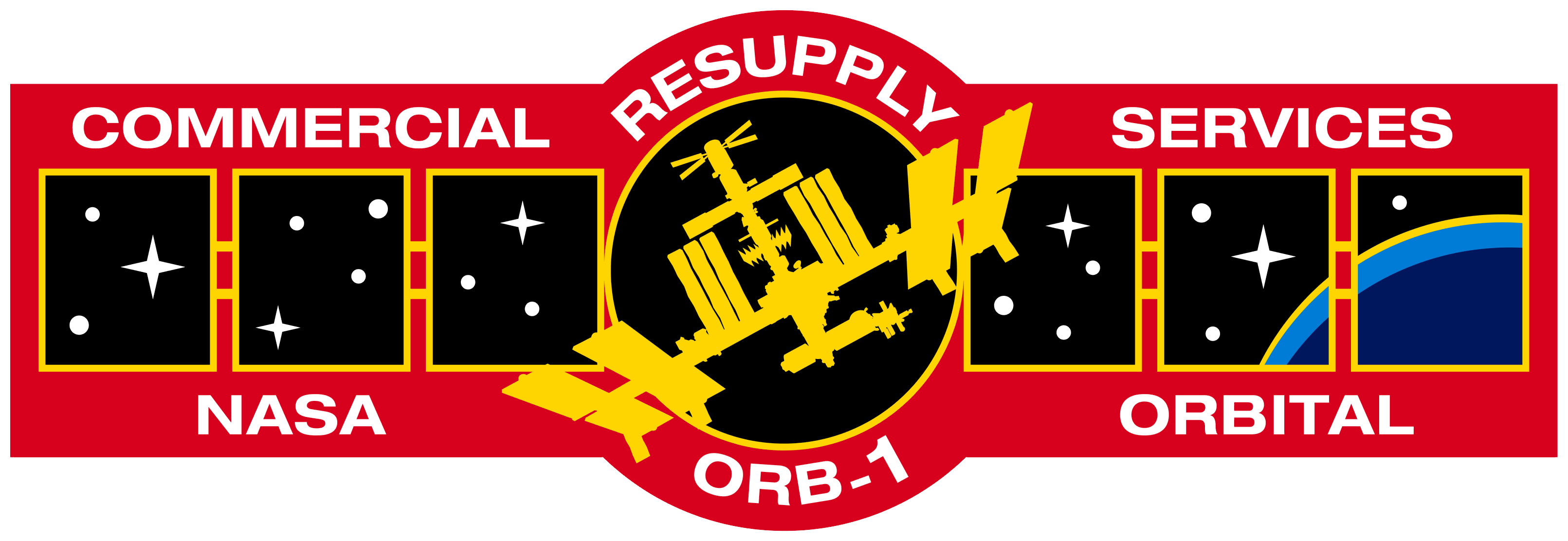 The NASA insignia for Orbital's Orb-1 resupply flight